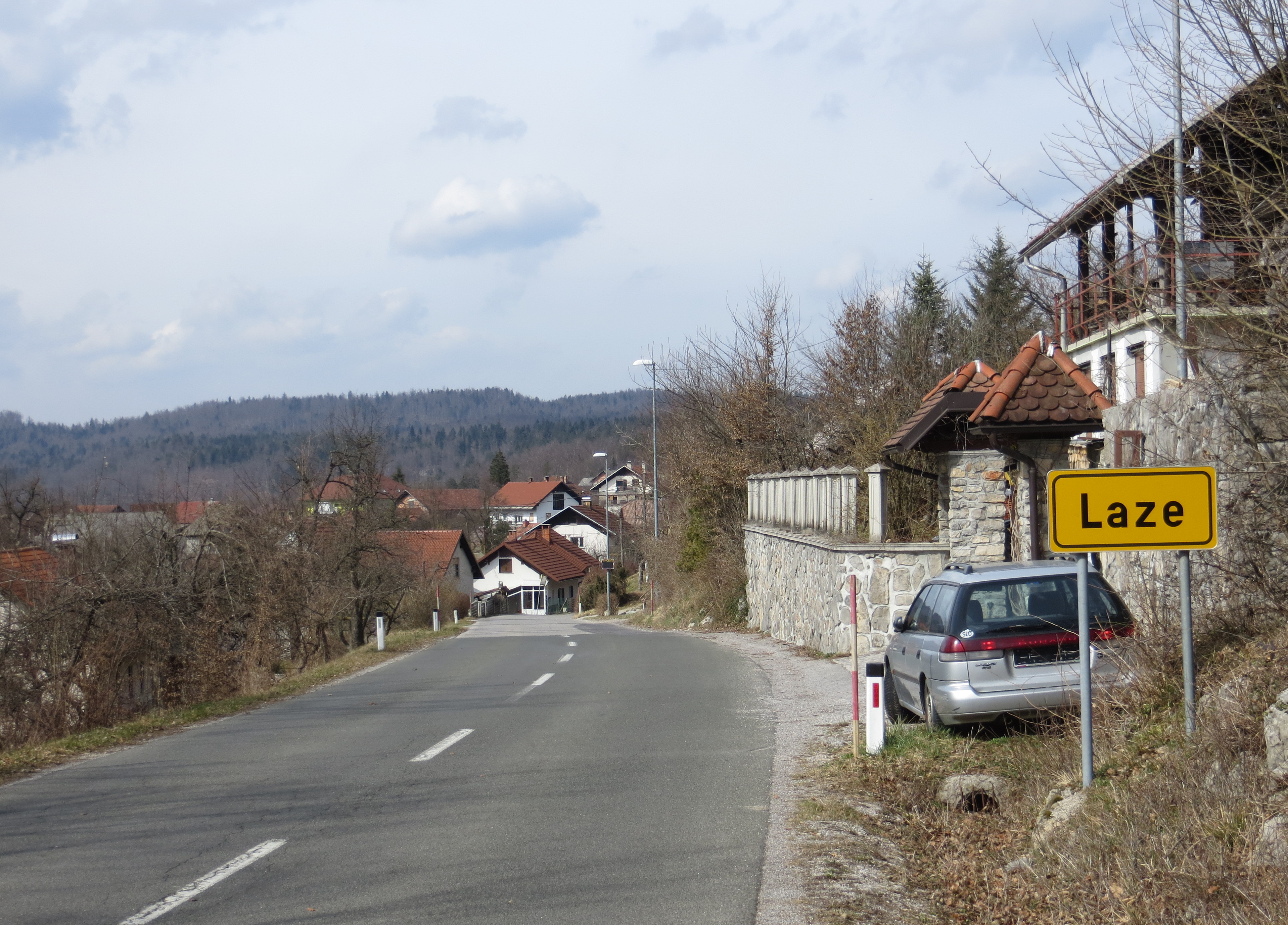 Laze, Municipality of Logatec , Slovenia